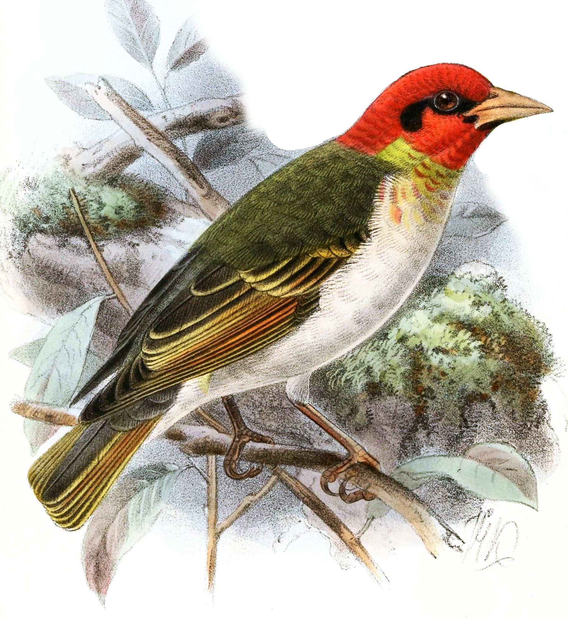 Male A. r. rubriceps from Caconda, Angola, acquiring breeding plumage. Ploceus gurneyi = Anaplectes rubriceps, cropped from original image